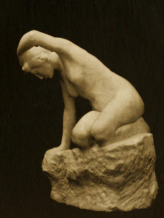 Sculpture by Haig Patigian shown in 1916 after the Panama–Pacific International Exposition in San Francisco. Photograph scanned from a book published in 1916.